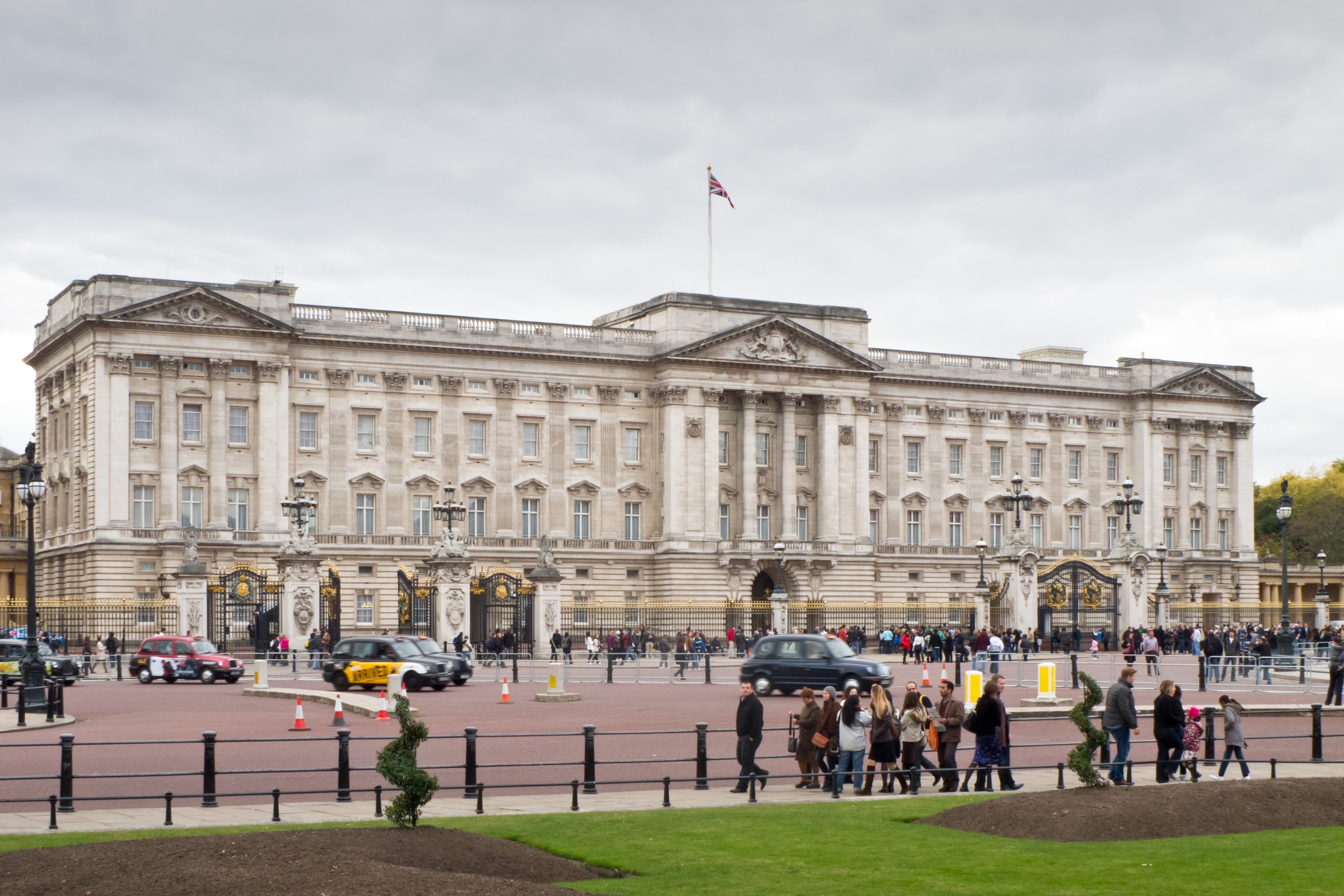 Buckingham Palace, London, England.